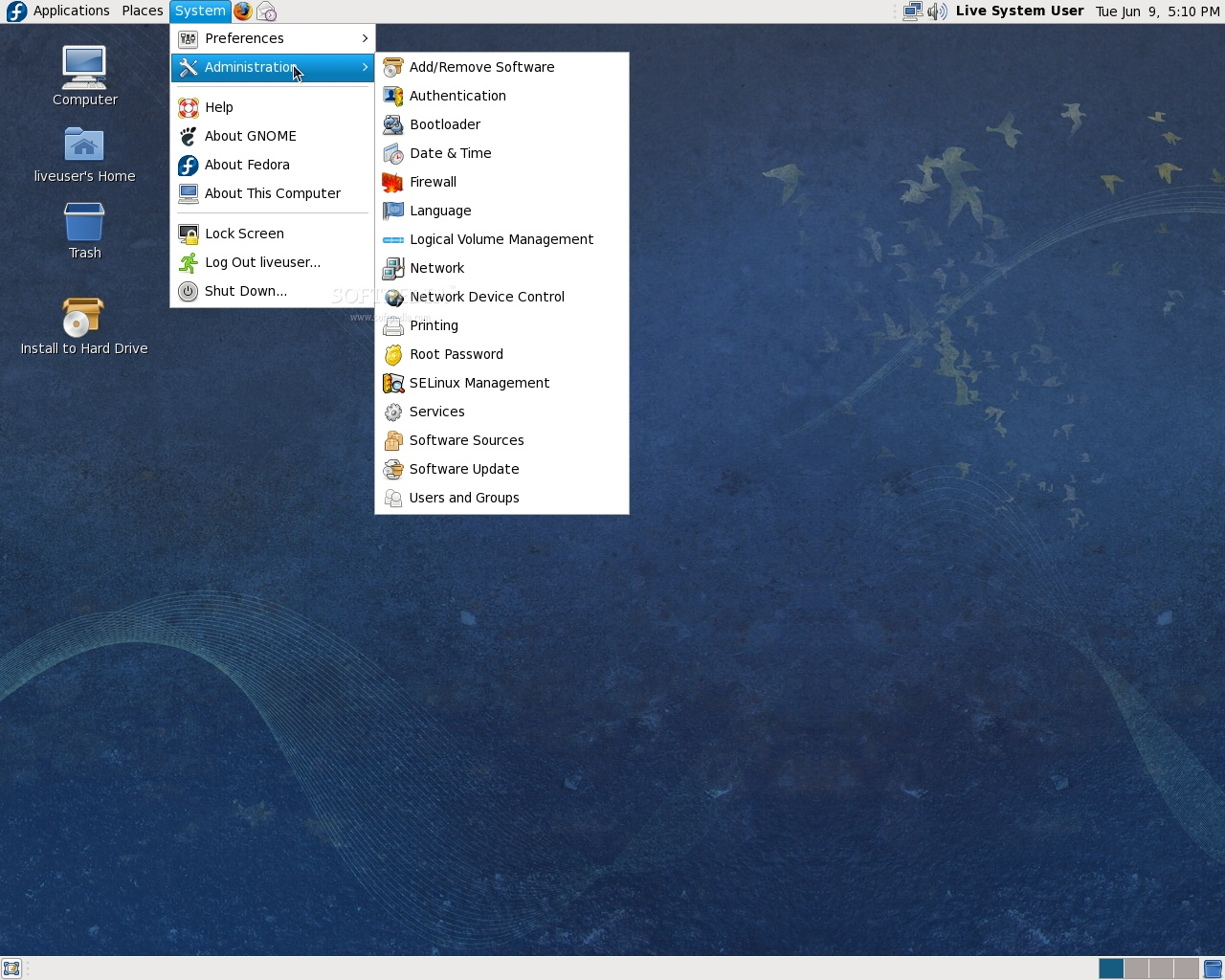 Fedora_11 Screenshot